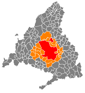 Metropolitan area of Madrid in 1964.